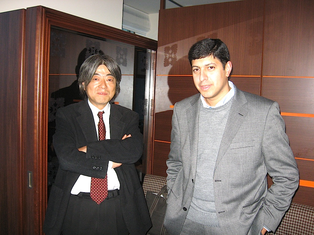 The researchers of Goytepe ( Y.Nishiyaki and F. Guliyev)